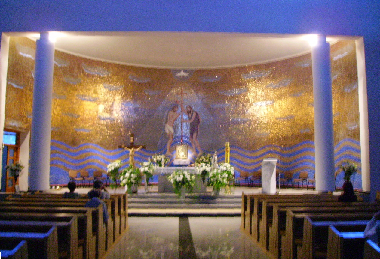 Altar of Saint John the Baptist Church in Józefów, Otwock County, Poland.